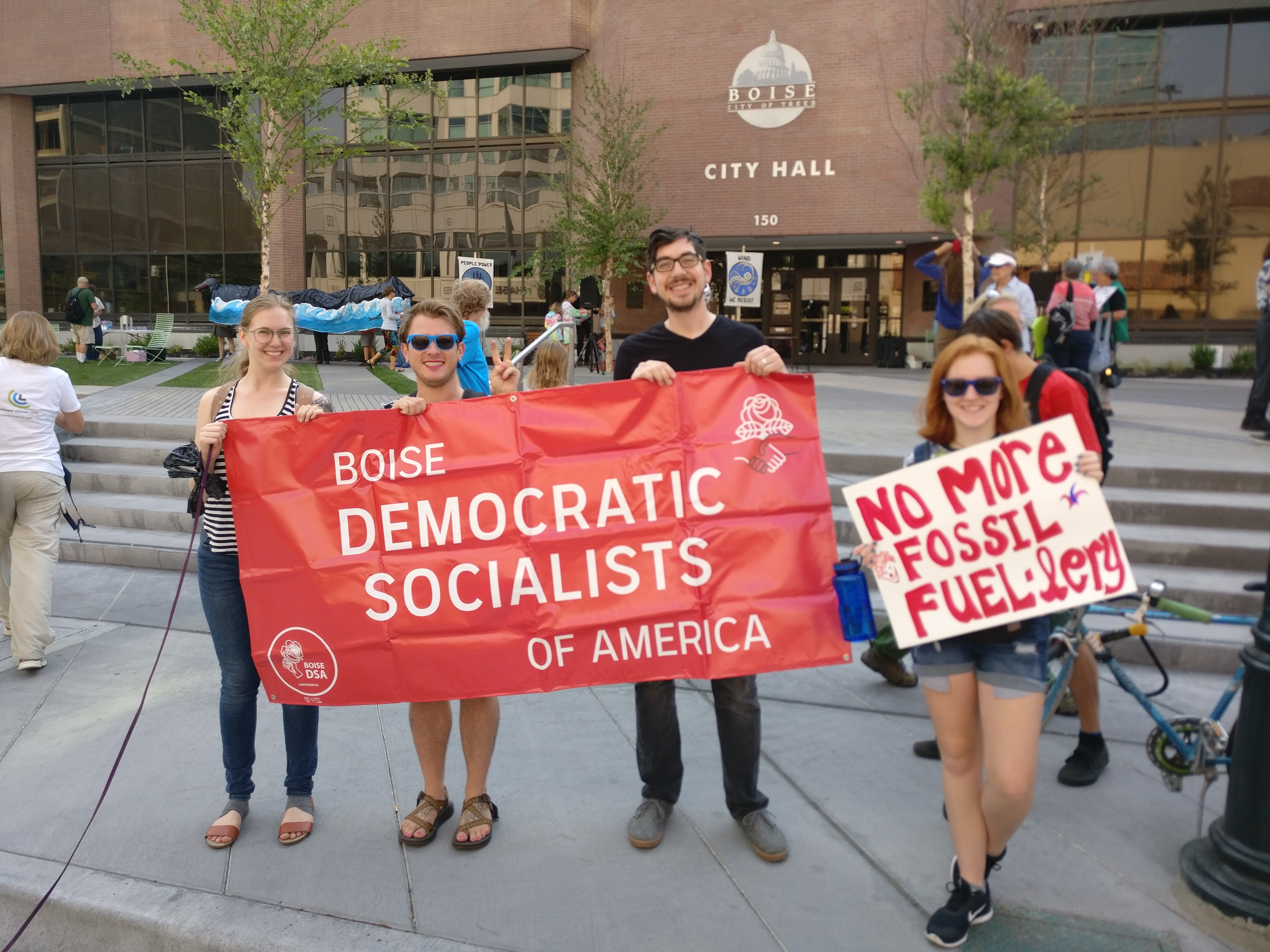 The Boise chapter of the Democratic Socialists of America at the end of a Climate Change march at City Hall in August 2018.